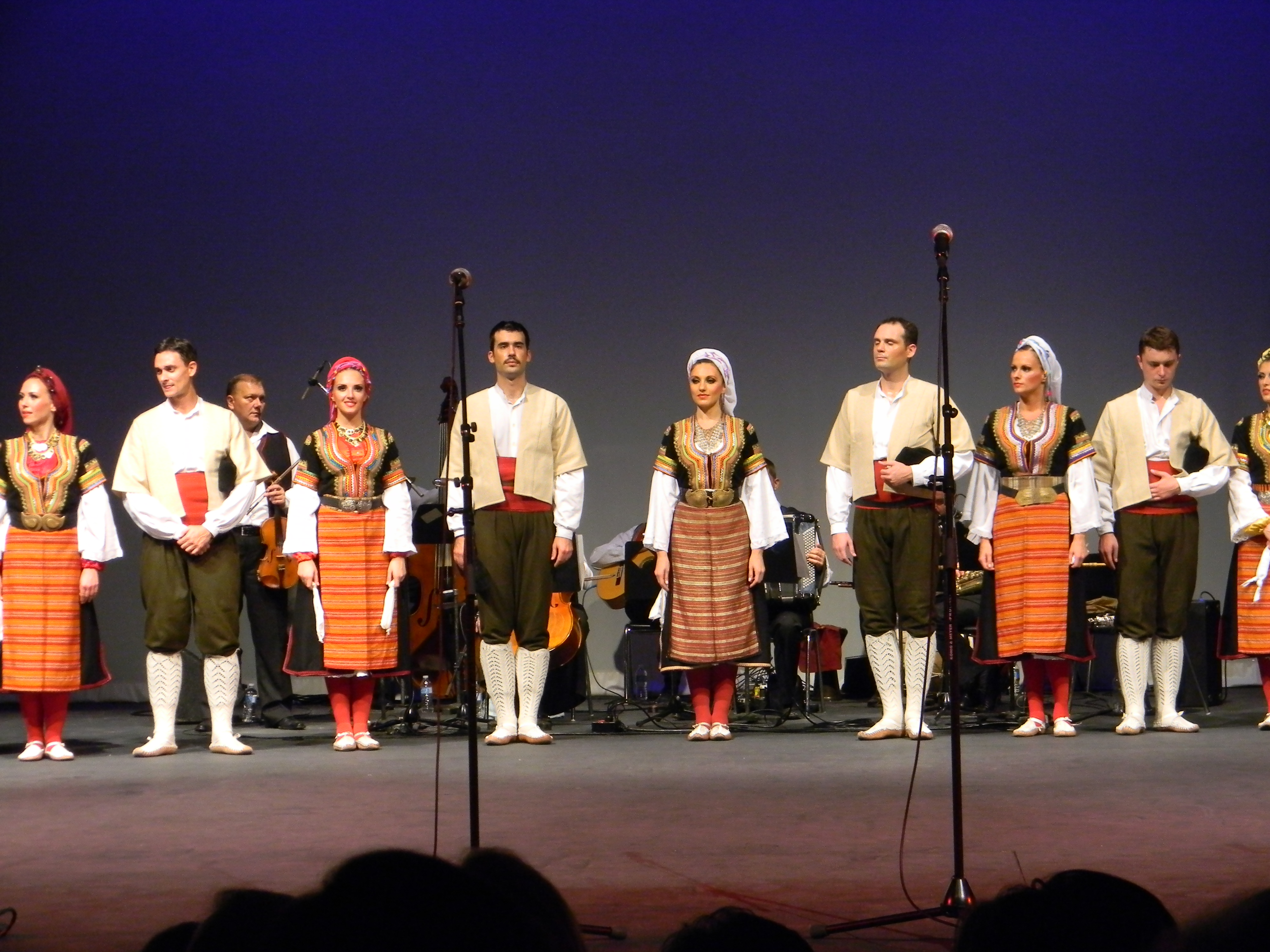 The Serbian National Folk Dance Ensemble Kolo in Hamilton, Ontario Canada - 2011